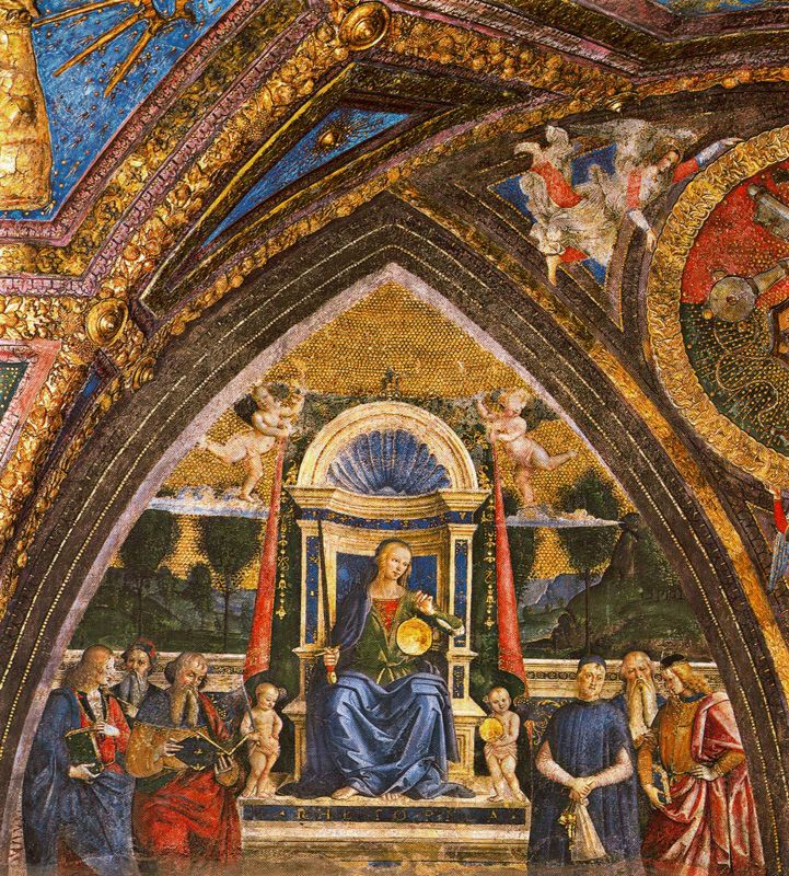 The Arts of the Trivium: Rhetoric Fresco Borgia Apartments, Hall of the Liberal Arts